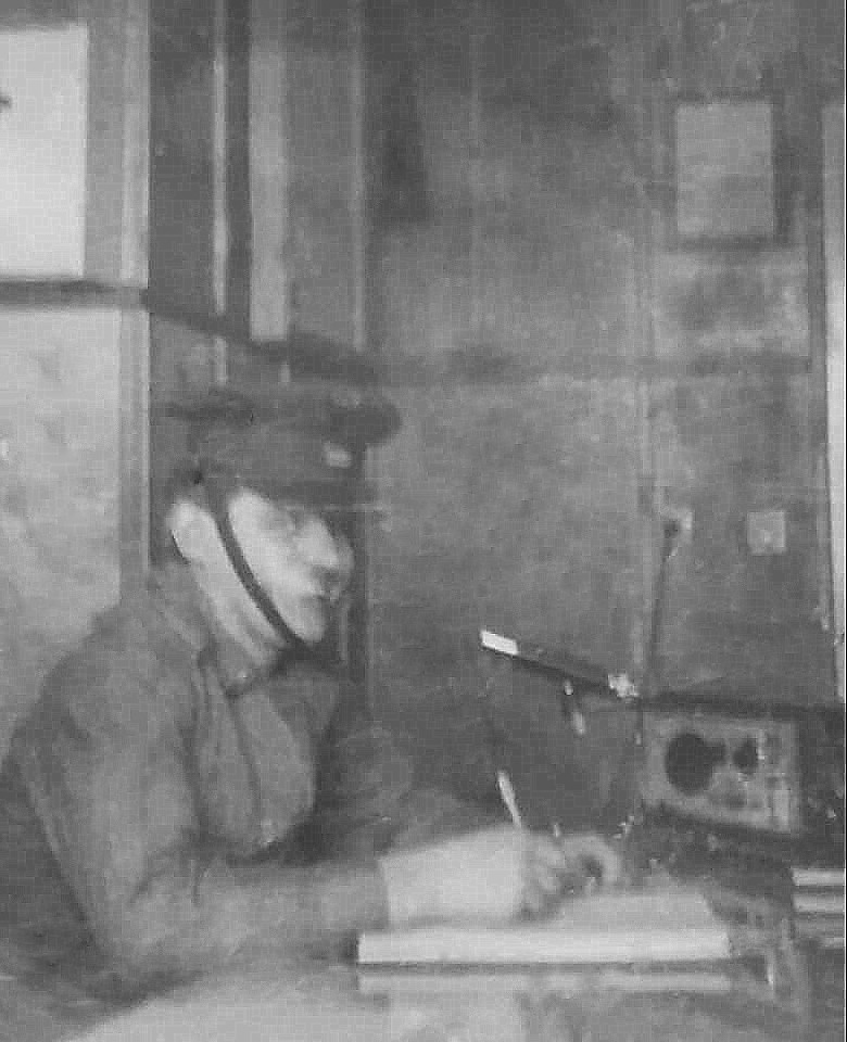 WOP post in Gościce